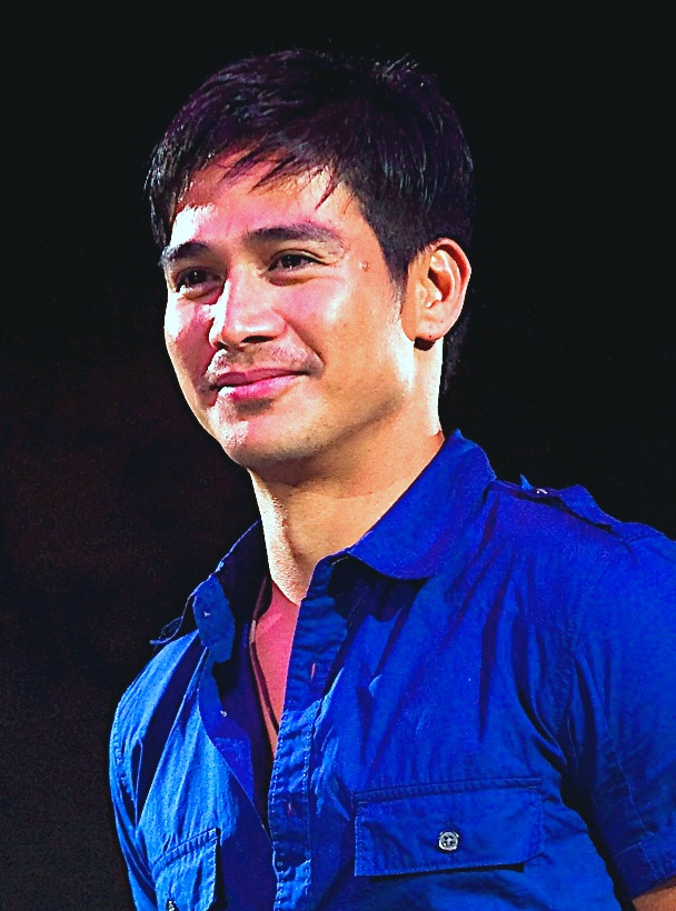 Piolo Pascual performing at the Star Magic Concert Tour in Ontario, Canada, last June 27, 2009.